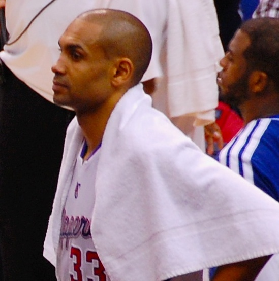 Los Angeles Clippers' DeAndre Jordan, Blake Griffin, Jamal Crawford, Grant Hill and Chris Paul (from left to right)